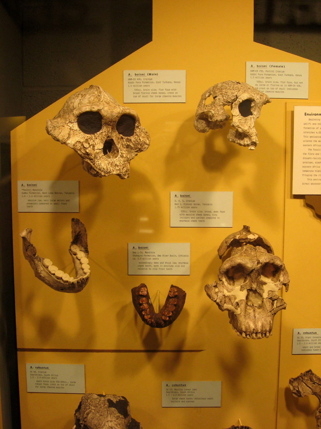 Fossils of Paranthropus boisei (also known as Australipithecus boisei) at the Cleveland Museum of Natural History. At the bottom fossils of Paranthropus robustus can be partily seen.